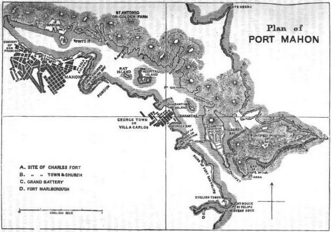 Plan of Port Mahon from Handbook to the Mediterranean: Its Cities, Coasts and Islands, Volume 2 (3rd edition, revised) by Lieut.-Col. R. Lambert Playfair K.C.M.G., London, John Murray, 1890. p. 515.